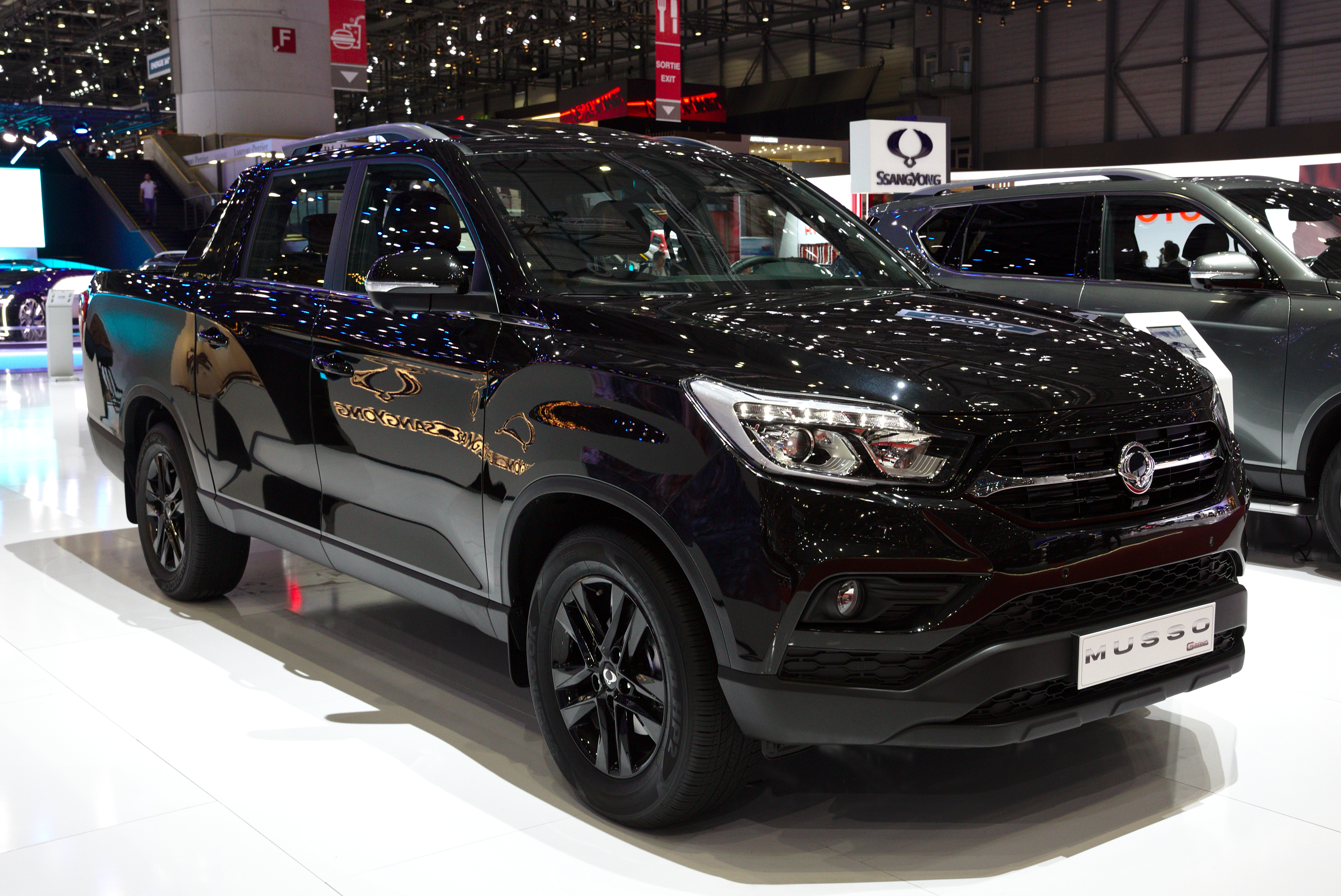 Ssangyong Musso Grand at Geneva Motor Show 2019